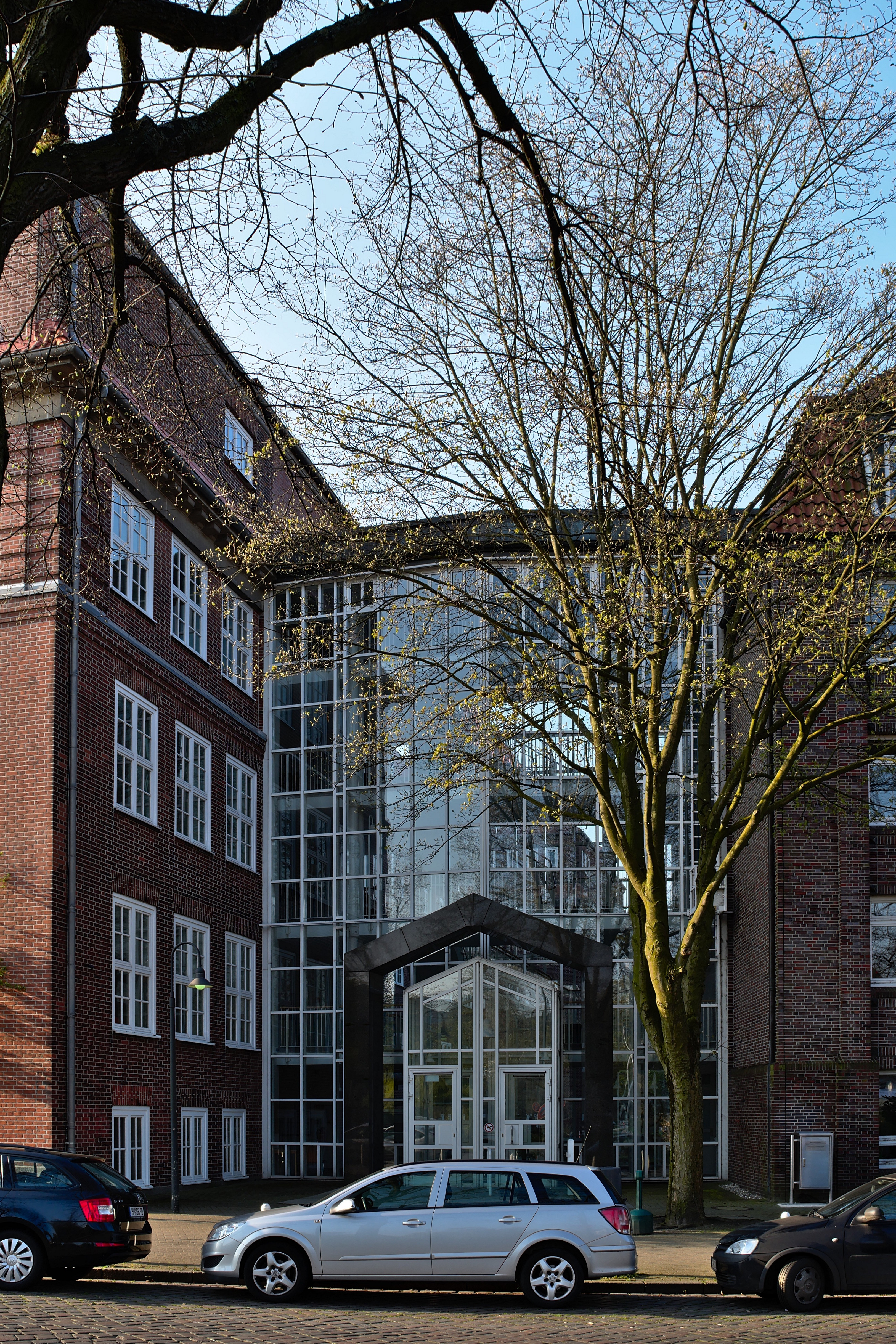 Building of the labour court and state labour court of the Free and Hanseatic City of Hamburg. Shown here is the entrance which is situated between the older part of the building, a former school (on the left), and the newer part (on the right). The old building is under cultural heritage protection.